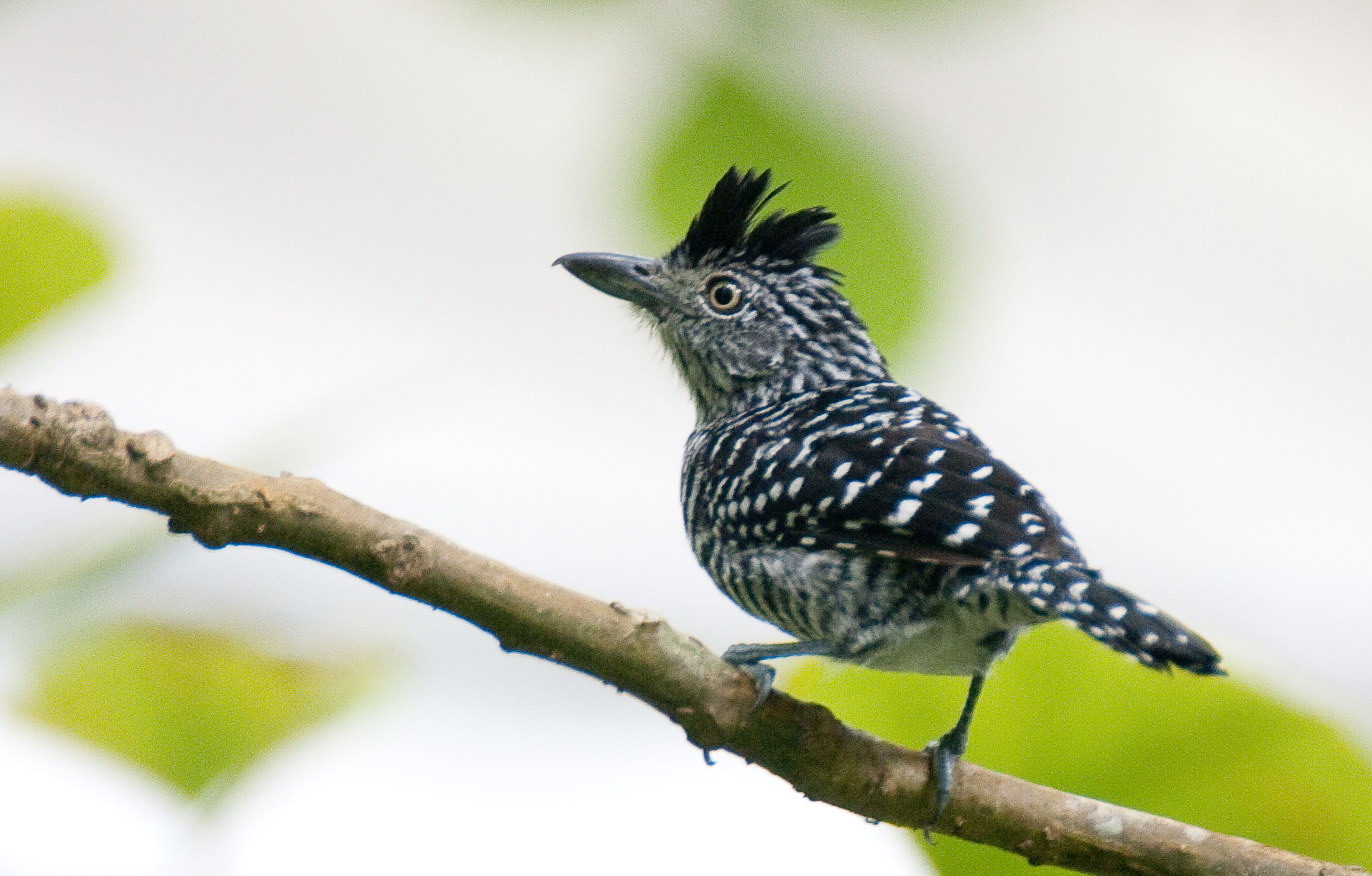 A male Barred Antshrike in Gamboa, Colón, Panama.